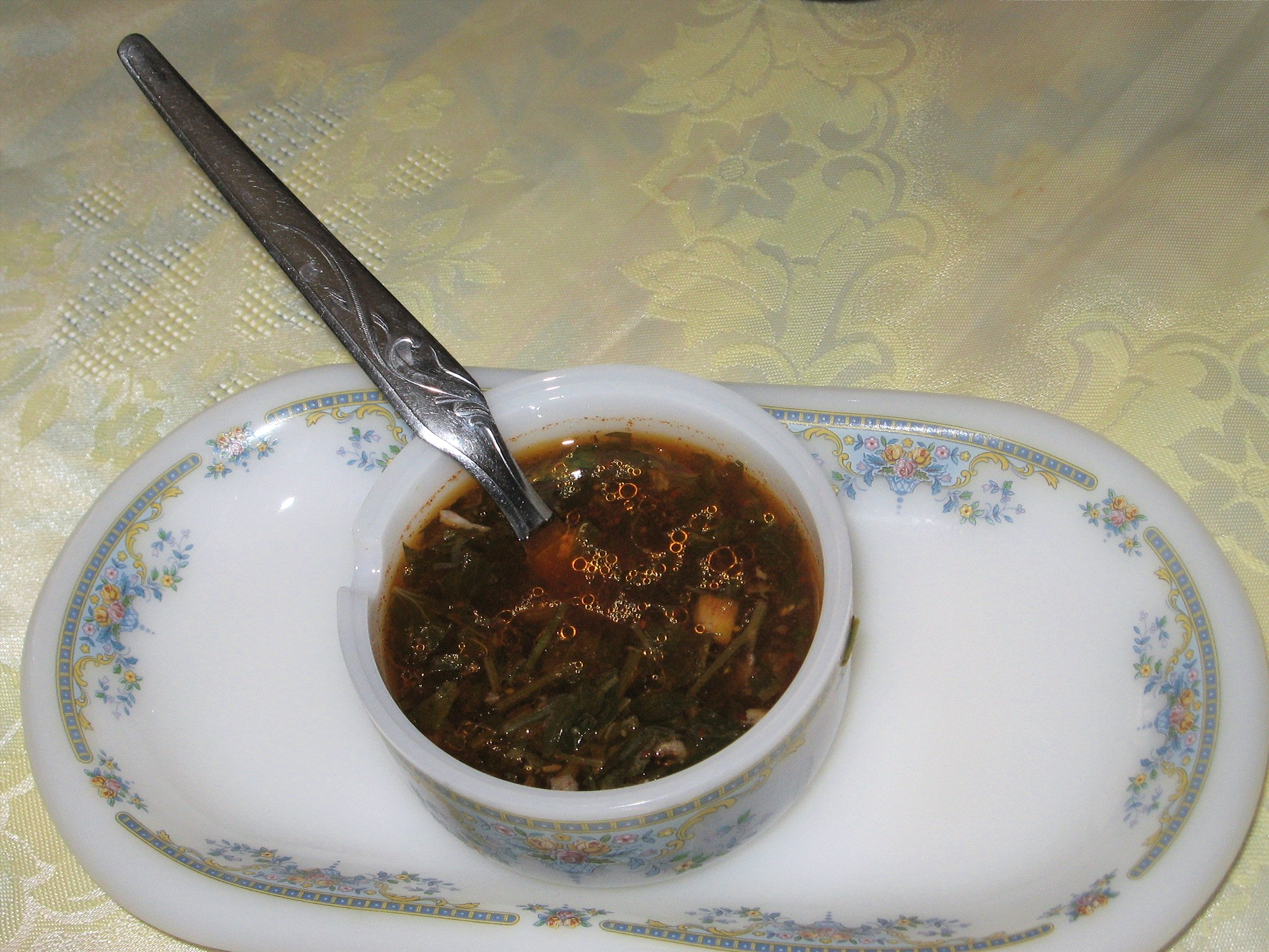 Chimichurri. my mother-in-law made it.